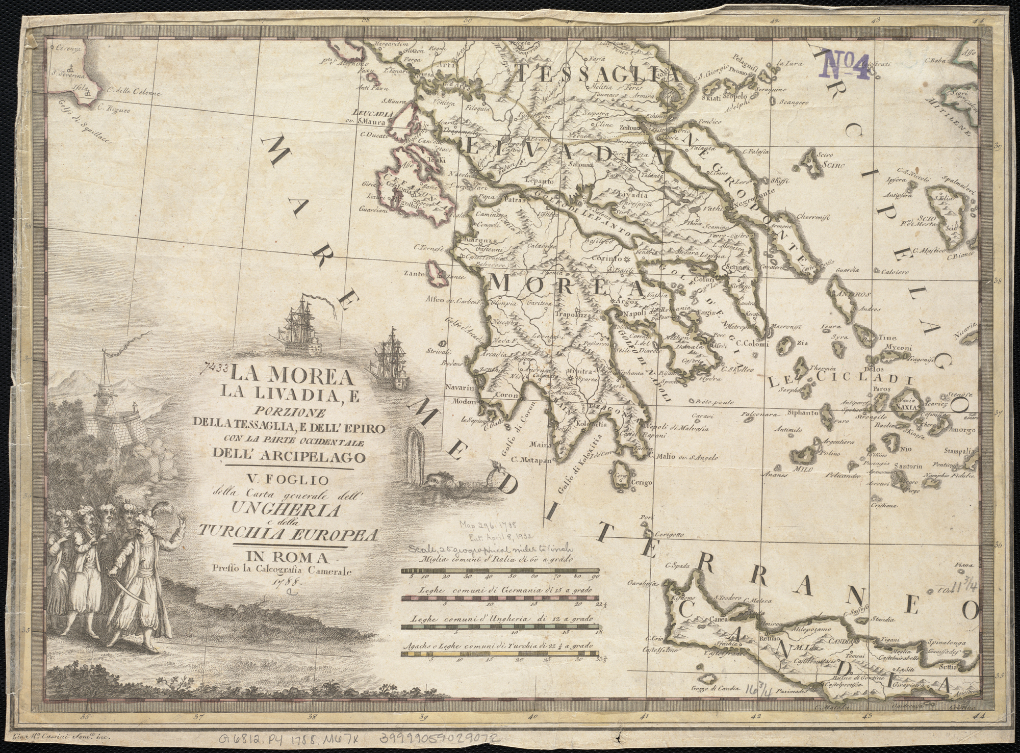 Zoom into this map at . Publisher: Caleografia Camerale Date: 1788 Location: Peloponnesus (Greece) Dimension: 31x43cm Scale: ca. 1:1,584,000 Call Number: G6812.P4 1788 .M67x